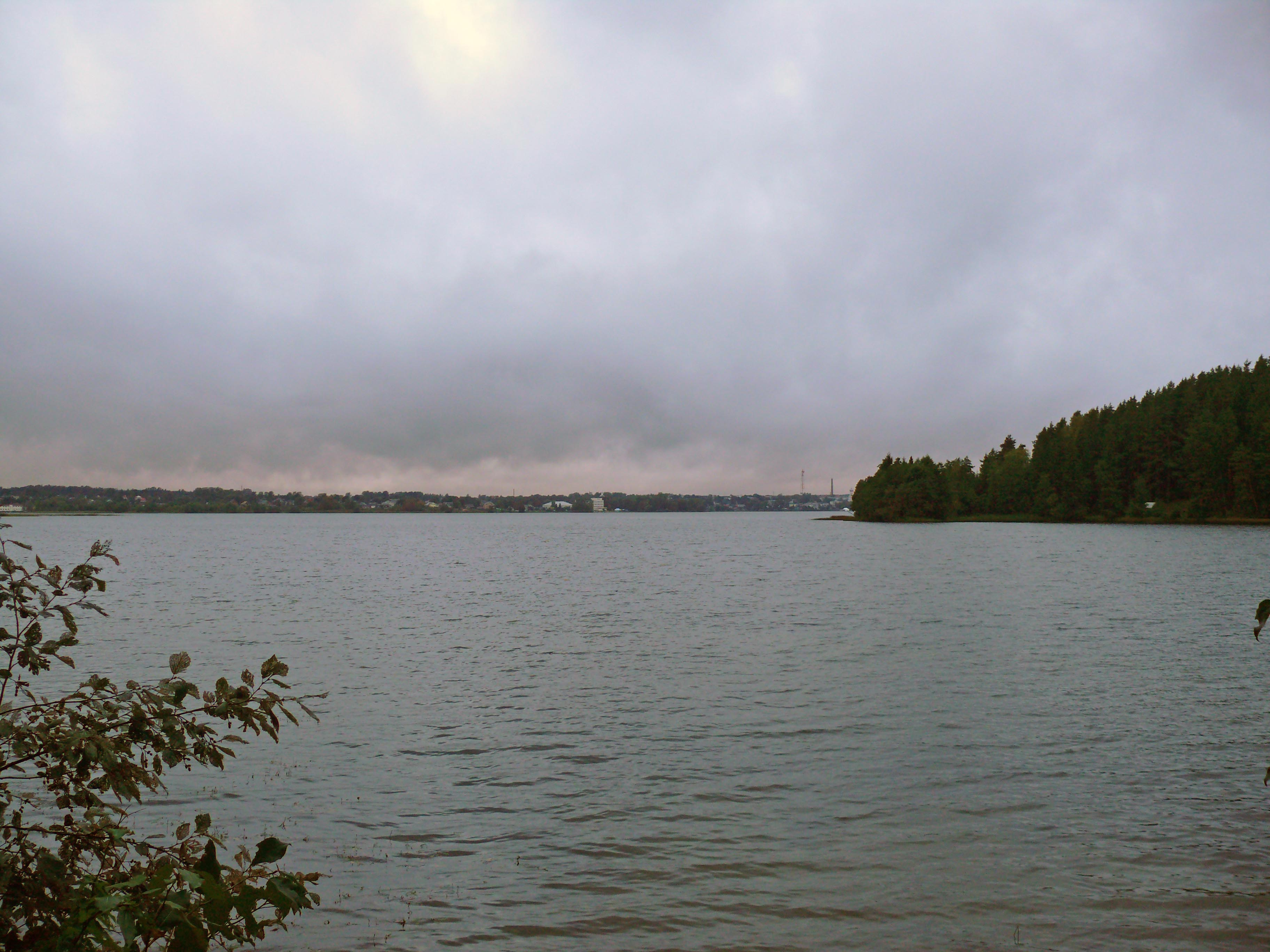 Valdaiskoe lake with Valday on the background. Novgorod oblast, Russia